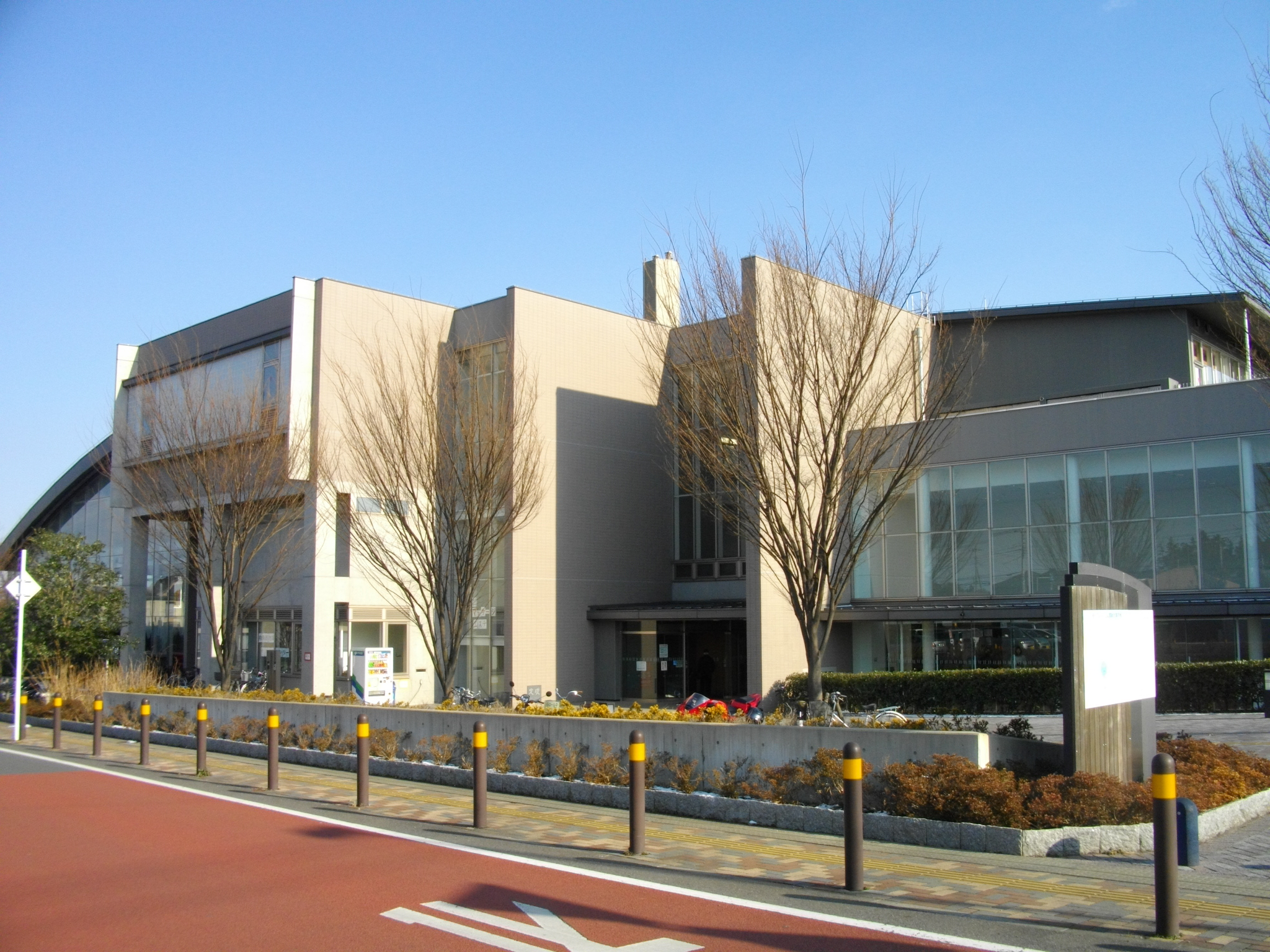 Refreshplaza-Kashiwa